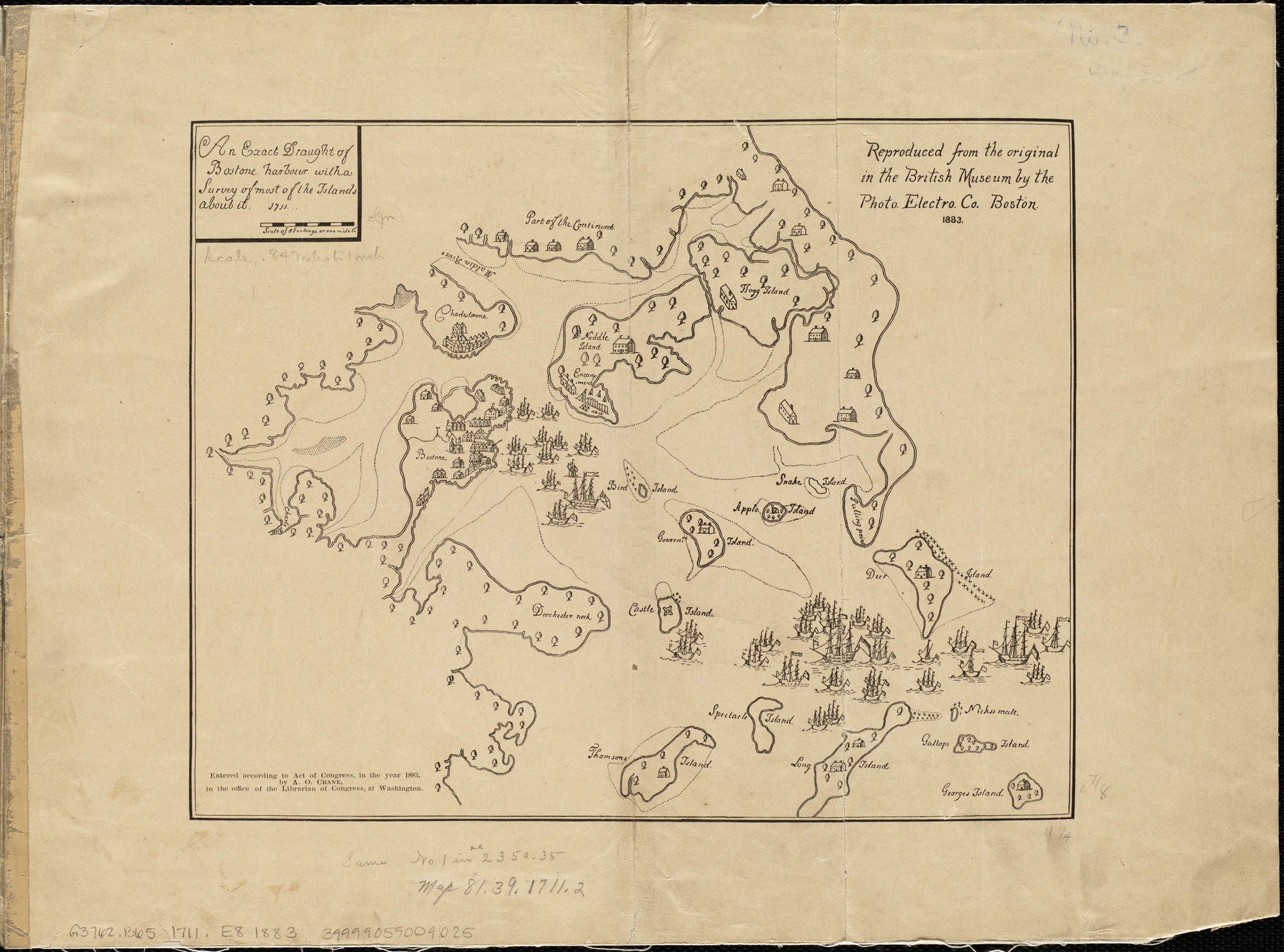 Zoom into this map at . Date: 1711 Location: Boston Harbor (Mass.), Boston Harbor Islands (Mass.) Dimension 23x29cm Scale: Scale not given Call Number: G3762.B65 1711 .E8 1883